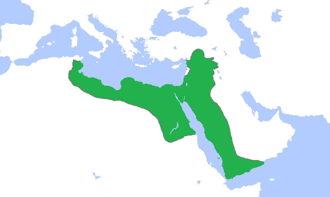 Ayyubid dynasty at its greatest extent, founded by Saladin c. 1188.